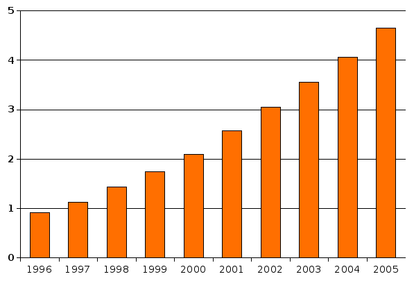 Bar chart of the number (per 1,000 U.S. resident children aged 6–11) of children aged 6–11 who were served under the Individuals with Disabilities Education Act (IDEA) with a diagnosis of autism, from 1996 through 2005. Counts of children diagnosed with autism for each year were taken from Table 1-9 of IDEA Part B Child Count (2005). These were divided by census estimates for U.S. resident population aged 6–11 taken from US census estimates for 1990–1999 resident population by age and the similar estimates for 2000–2005; for all years, the September population estimates were used.